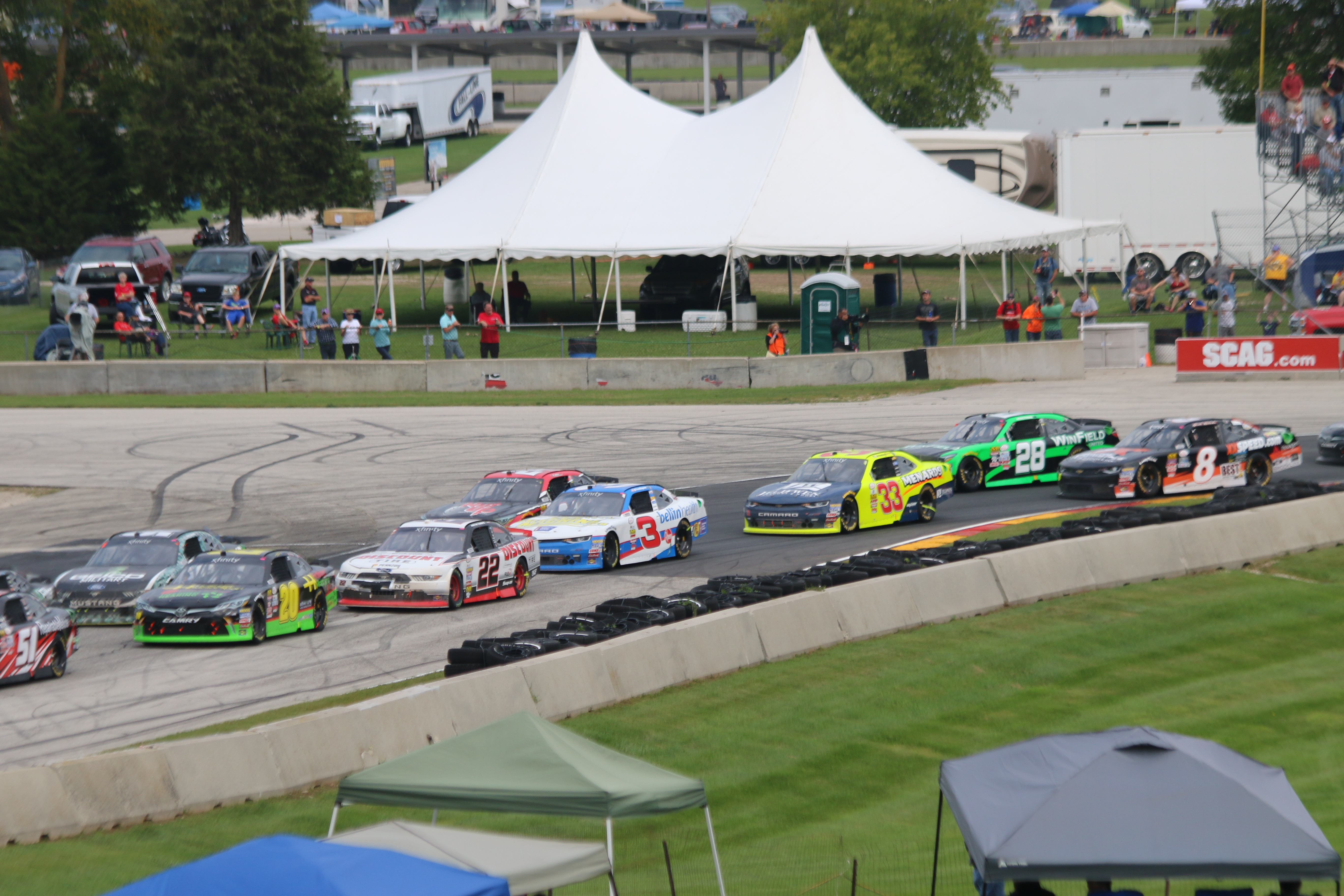 The field in turn 5 at the NASCAR Xfinity Series Johnsonville 180 race.